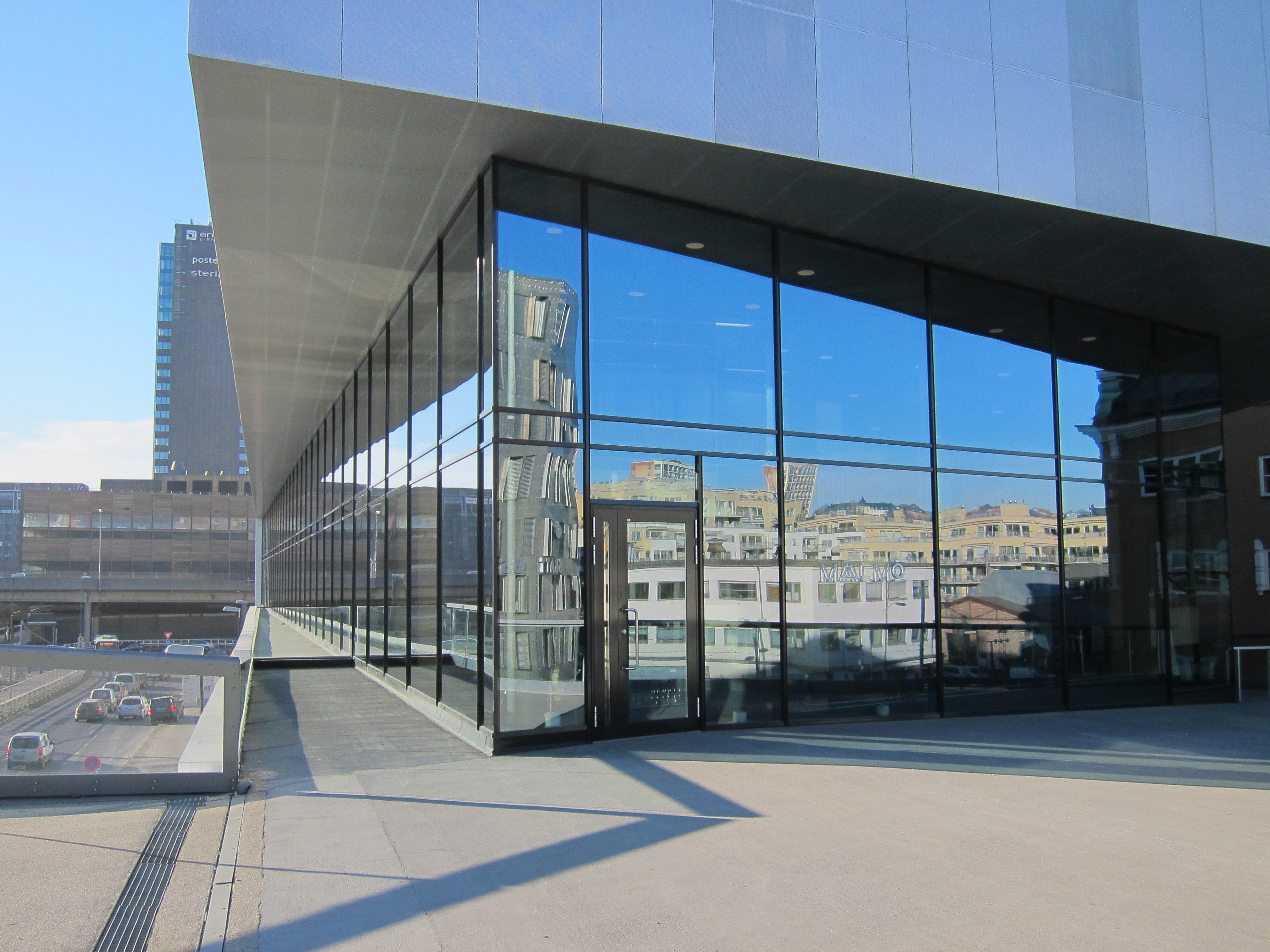 The restaurant Maaemo in Oslo, Norway, famous for having 2 stars in the Guide Michelin